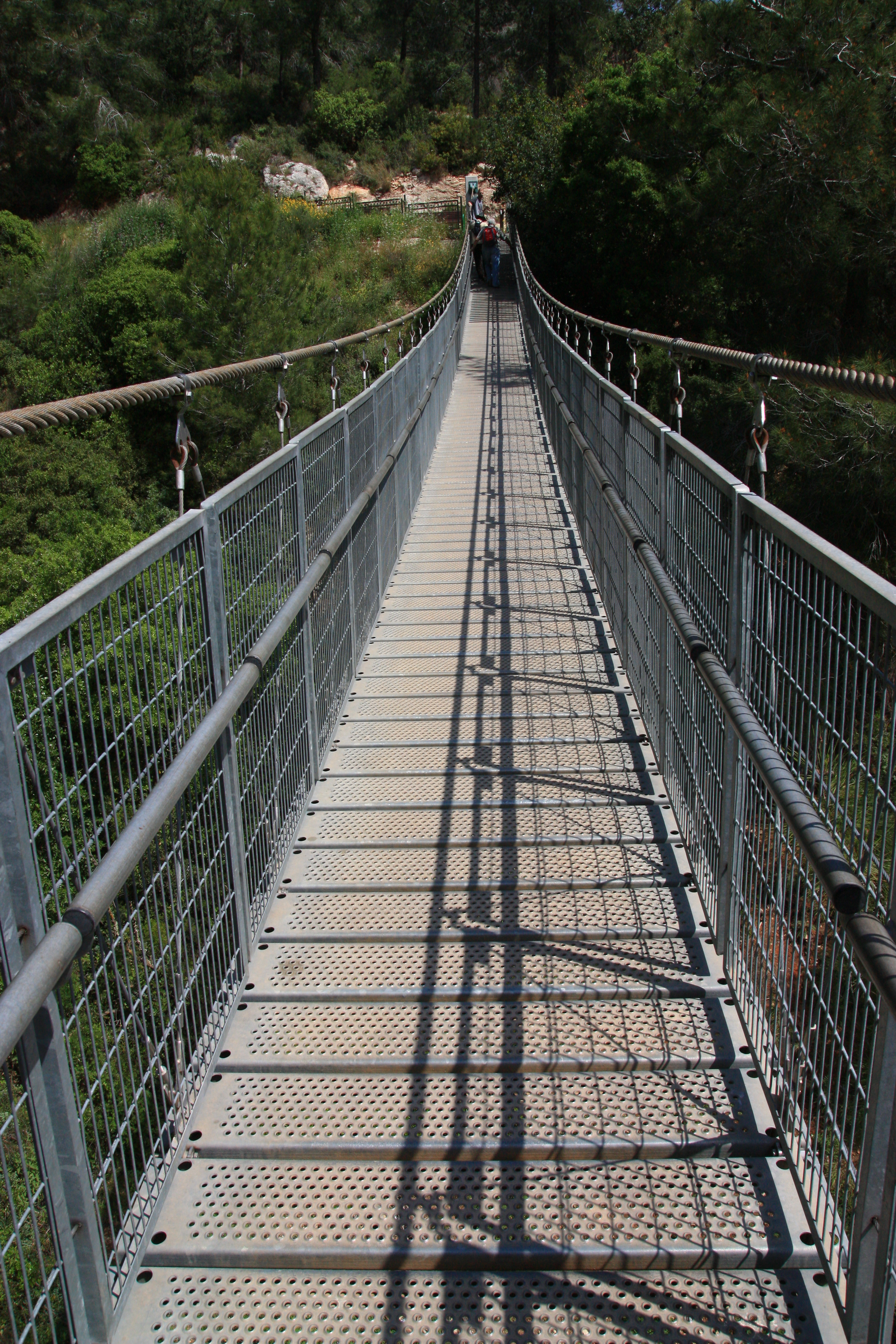 Mount Carmel